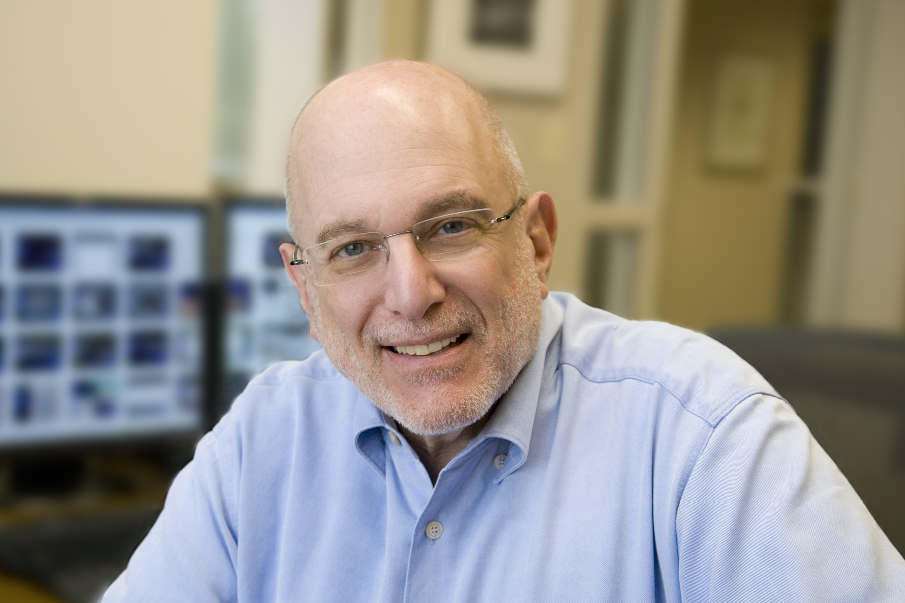 Picture of John Lavine